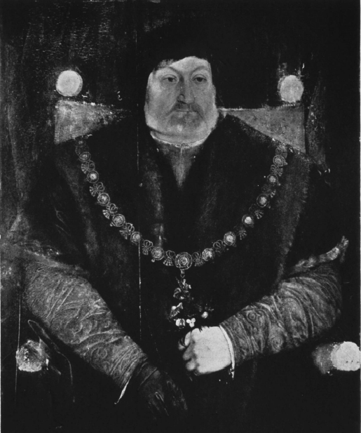 Portrait with overpaints cleaned off Paul Ganz: The hitherto little-known portrait of Charles Brandon, Duke of Suffolk, which we publish here for the first time in its original form, was shown in 189o at the Tudor exhibition (No. 38 of the Catalogue), as a work by Hans Holbein the Younger [PLATE I]. It represents the powerful favourite and brother-in-law of King Henry VIII in his fifties, seated in an armchair covered with leather of cinnabar colour, ornamented with gold. The broad-shouldered, rather corpulent gentleman wears his black beret tilted over the right ear, on the top of the closely-fitting cap; his doublet is made of crimson cloth decorated with quilted ornamentation, while his white shirt is adorned with a black embroidered border, visible at the wrists and around the neck. His short-sleeved black velvet coat, trimmed with fur at the elbows, is partly covered by a surcoat made of black silk with a broad border of marten fur, over which hangs the collar of the Garter with St. George, and the ends of which are visible below the arms, hiding the chair to the left. His right hand is gloved in dark grey and holds the other glove, wihile his left holds a small bouquet of flowers, which no doubt has a symbolical meaning. The background is composed of a dark green curtain, ornamented with a red-brown design.